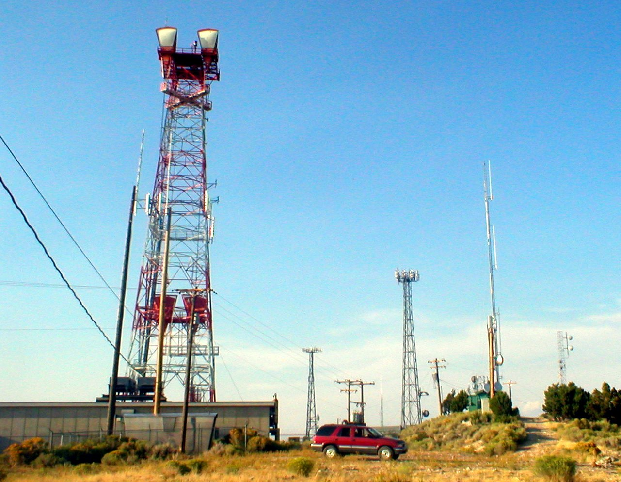 West Mountain, looking north towards the summit. This is the primary radio tower cluster on the mountain.